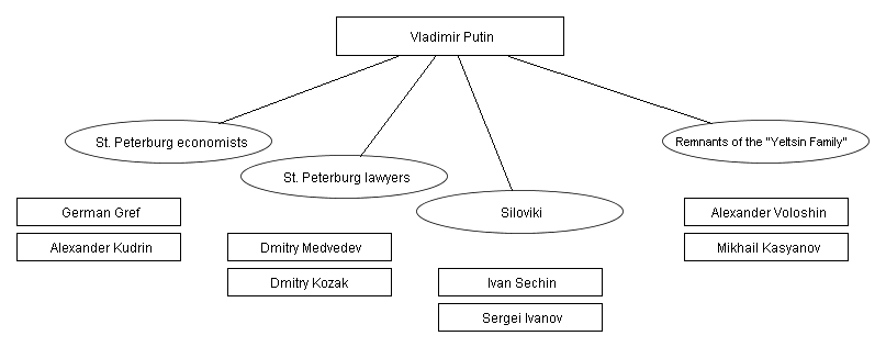 Major informal groups of the second-term Putin presidency